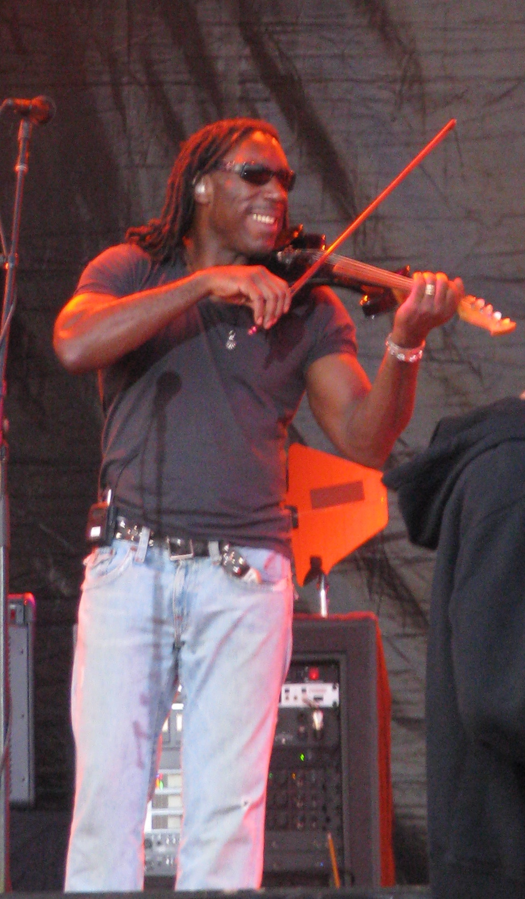 Boyd Tinsley, Violinist for Dave Matthews Band, Rothbury Michigan